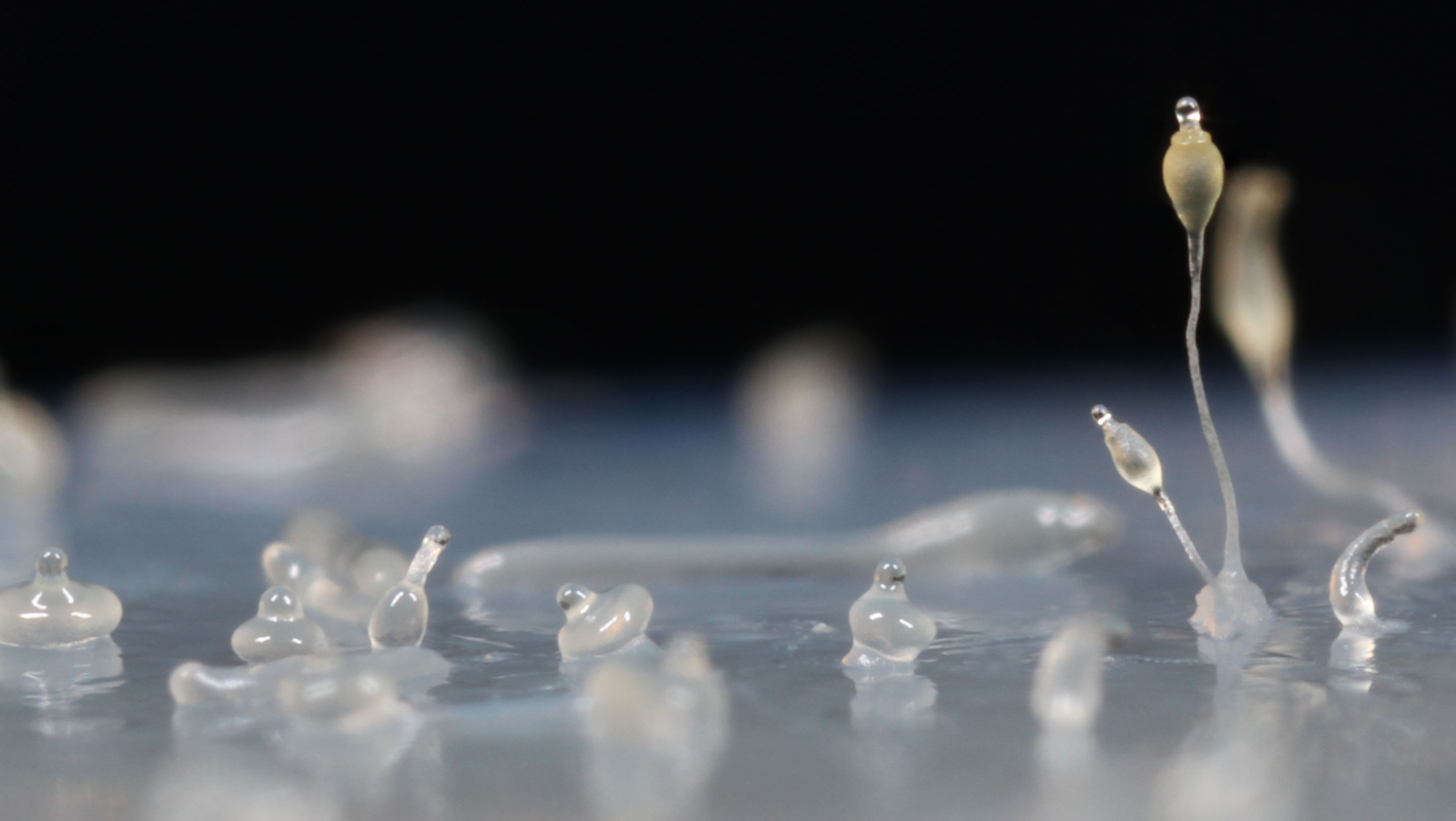 Queller/Strassmann Lab - Photographed by Usman Bashir